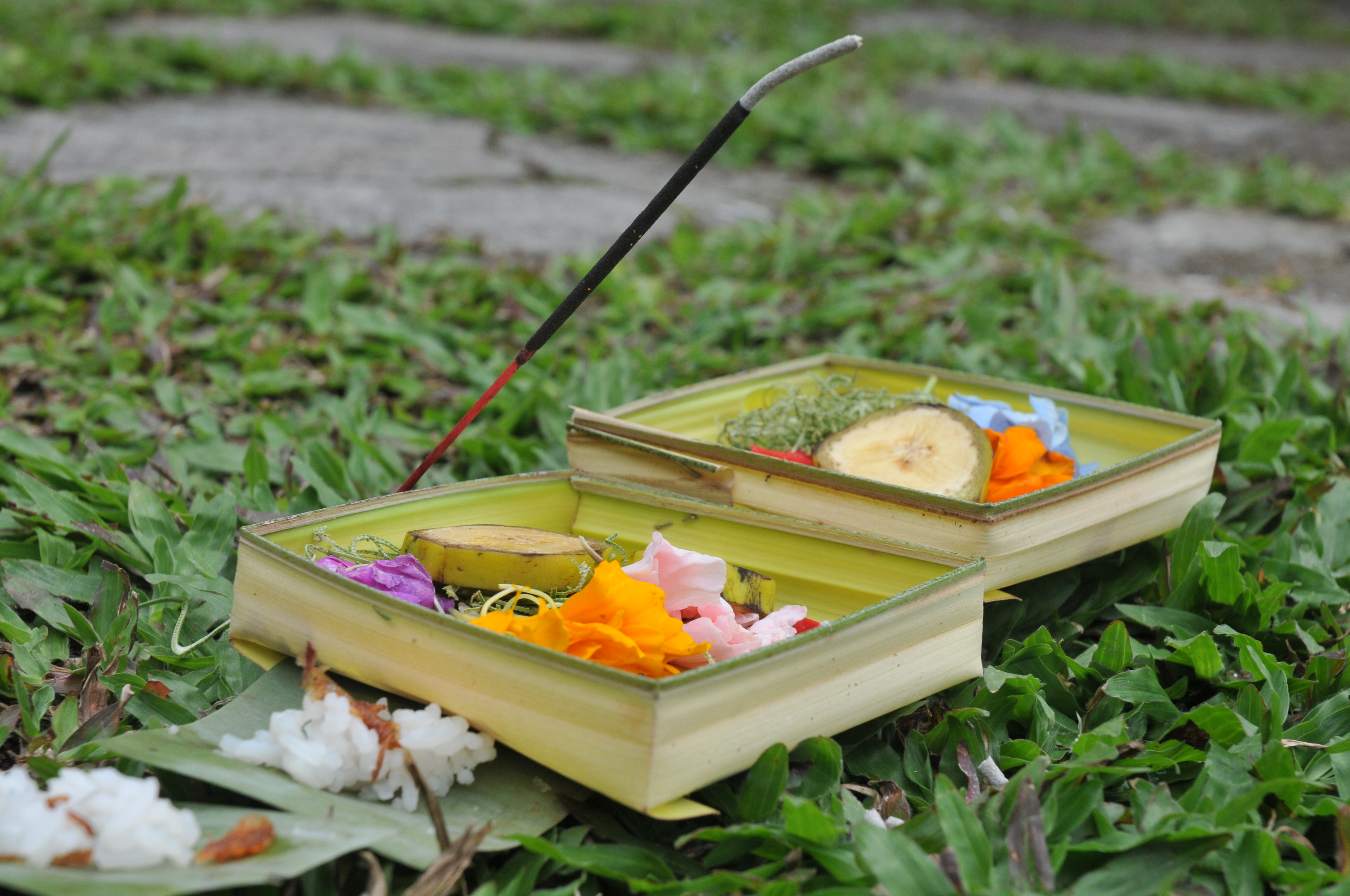 Flowers, fruits, food, perfume scent